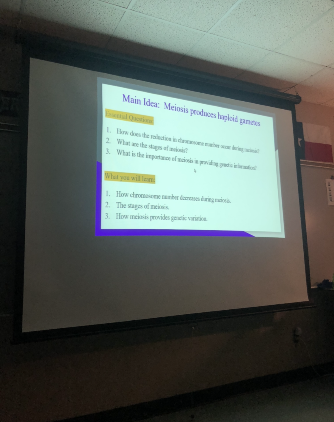 Slide show projector being used for a high school biology class in November 2019.